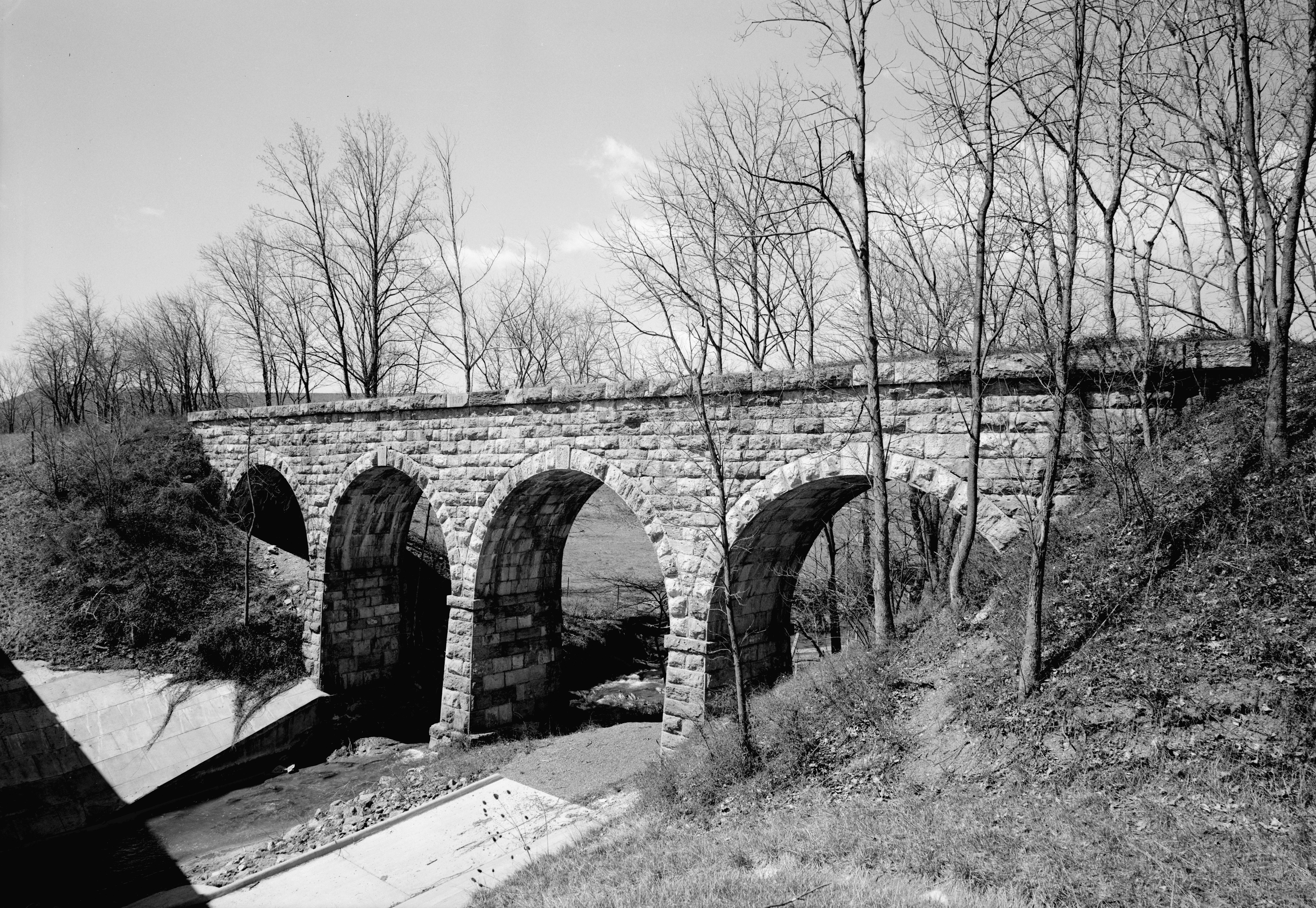 Valley Railroad, Folly Mills Creek Viaduct, Interstate 81, Staunton vicinity (Augusta County, Virginia) cropped This image or media file contains material based on a work of a National Park Service employee, created as part of that person's official duties. As a work of the U.S. federal government, such work is in the public domain in the United States. See the NPS website and NPS copyright policy for more information. Creator: U.S. Department of the Interior, National Park Service, Historic American Engineering Record. Survey number HAER VA,8-STAU.V,2-3 Source: U.S. Library of Congress, Prints and Photographs Division, "Built in America" Collection. Copyright: "The original measured drawings and most of the photographs and data pages in HABS/HAER/HALS were created for the U.S. Government and are considered to be in the public domain." Object location38° 05′ 21″ N, 79° 04′ 40″ W